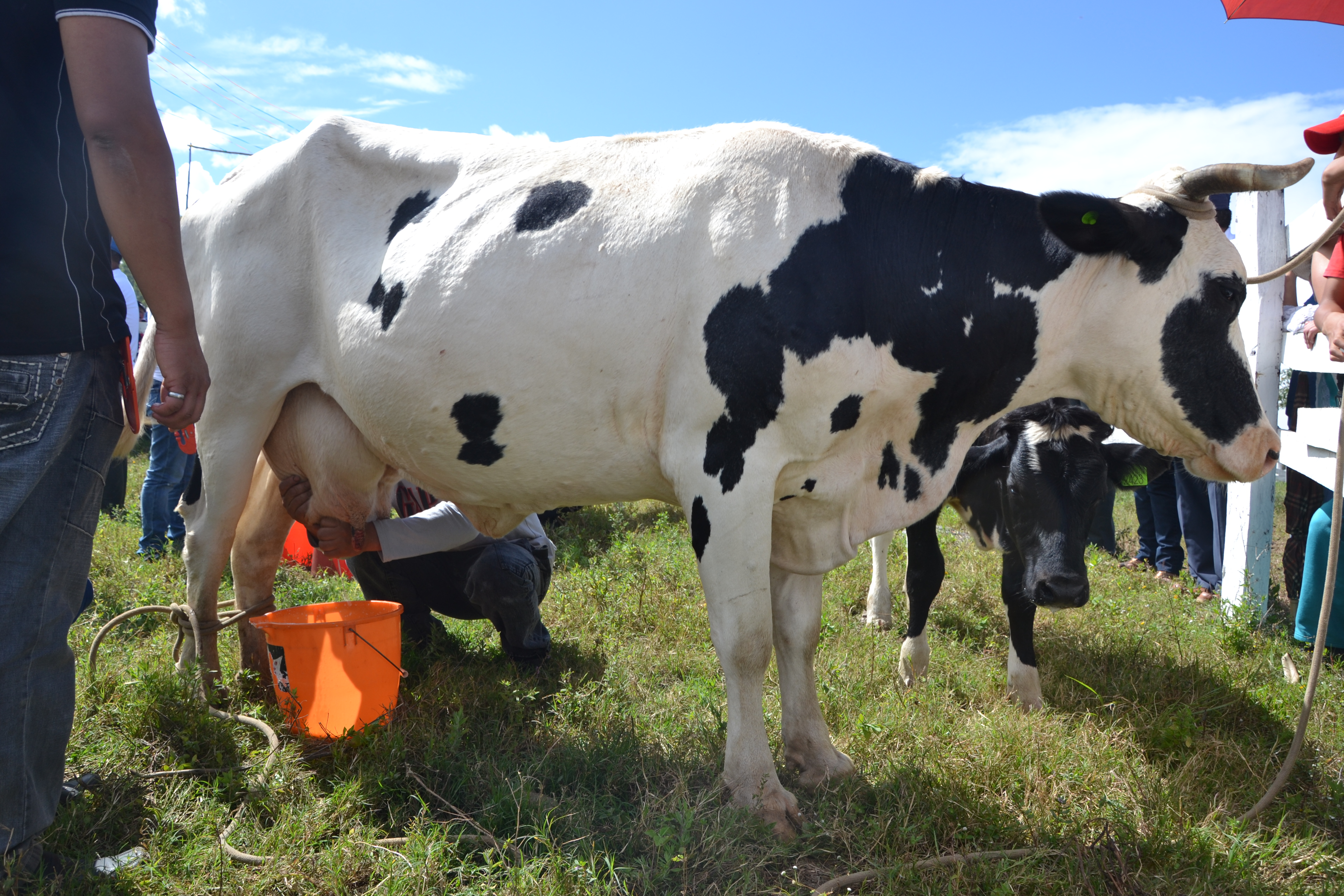 feria ganadera de pozul 4